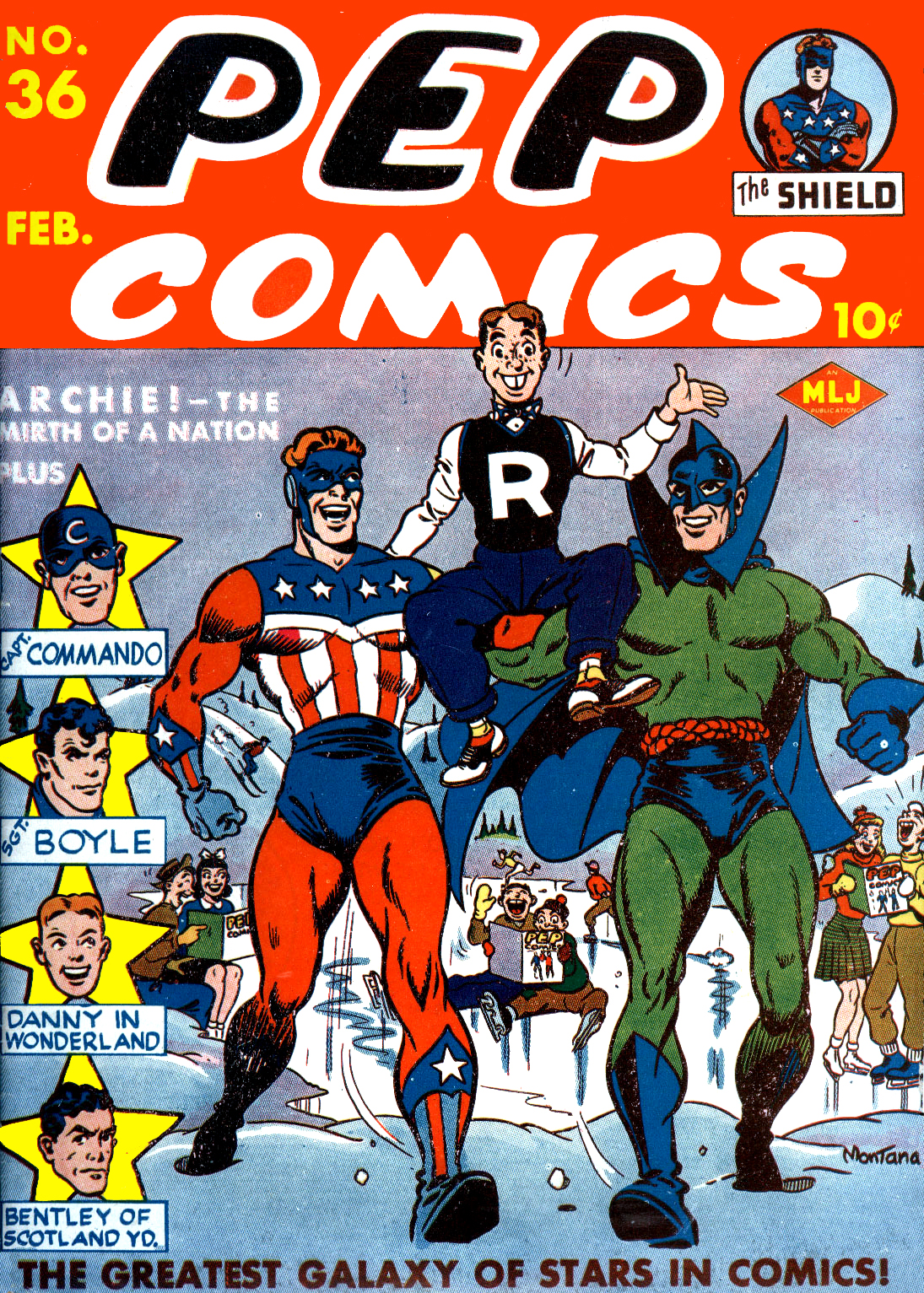 Archie Andrews with The Shield and The Hangman on the cover of Pep number 36 (MLJ, February 1943). Although Archie had debuted in 1941, it would be nearly two years before he appeared on the cover of the magazine.